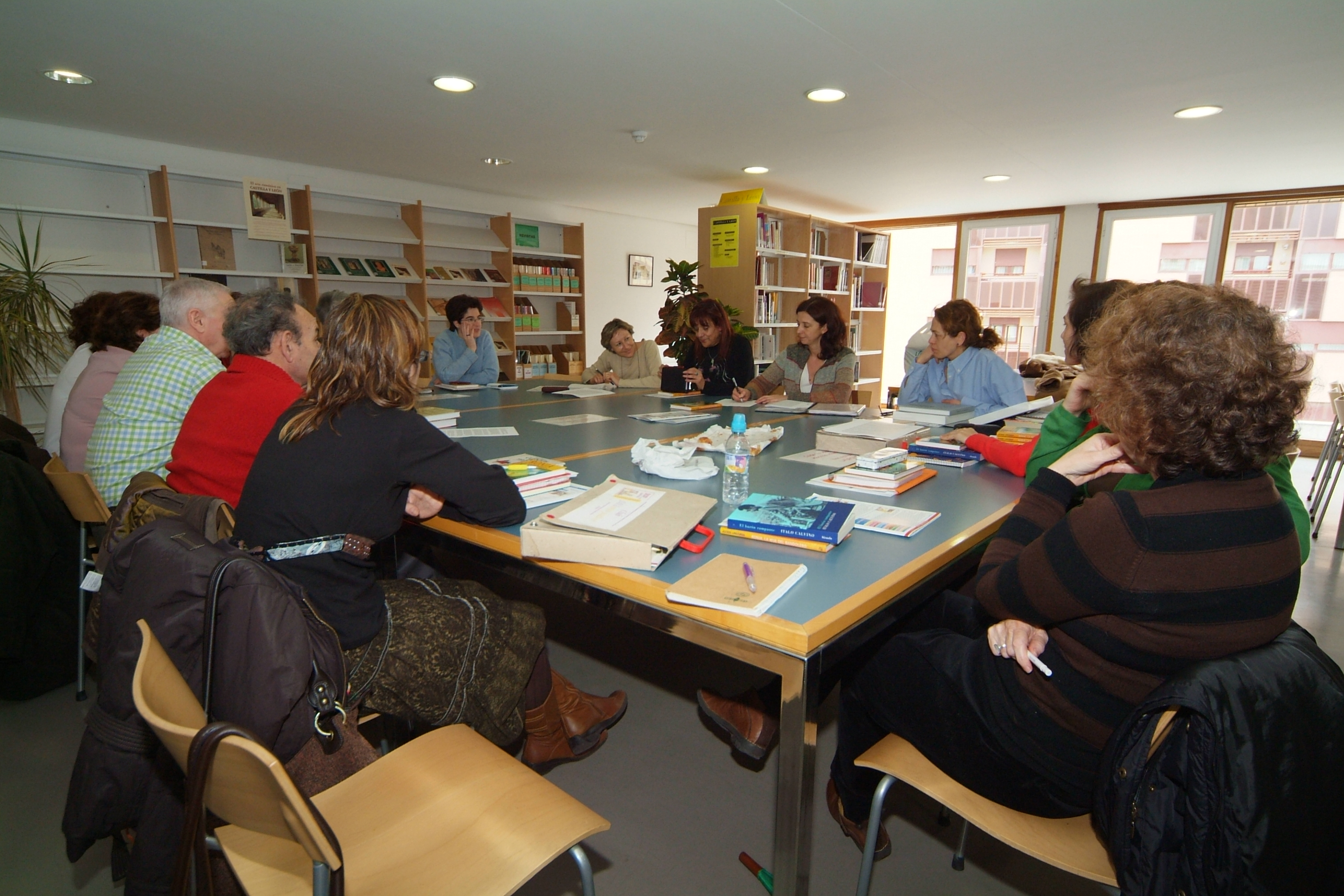 Reading Club Torrente Ballester